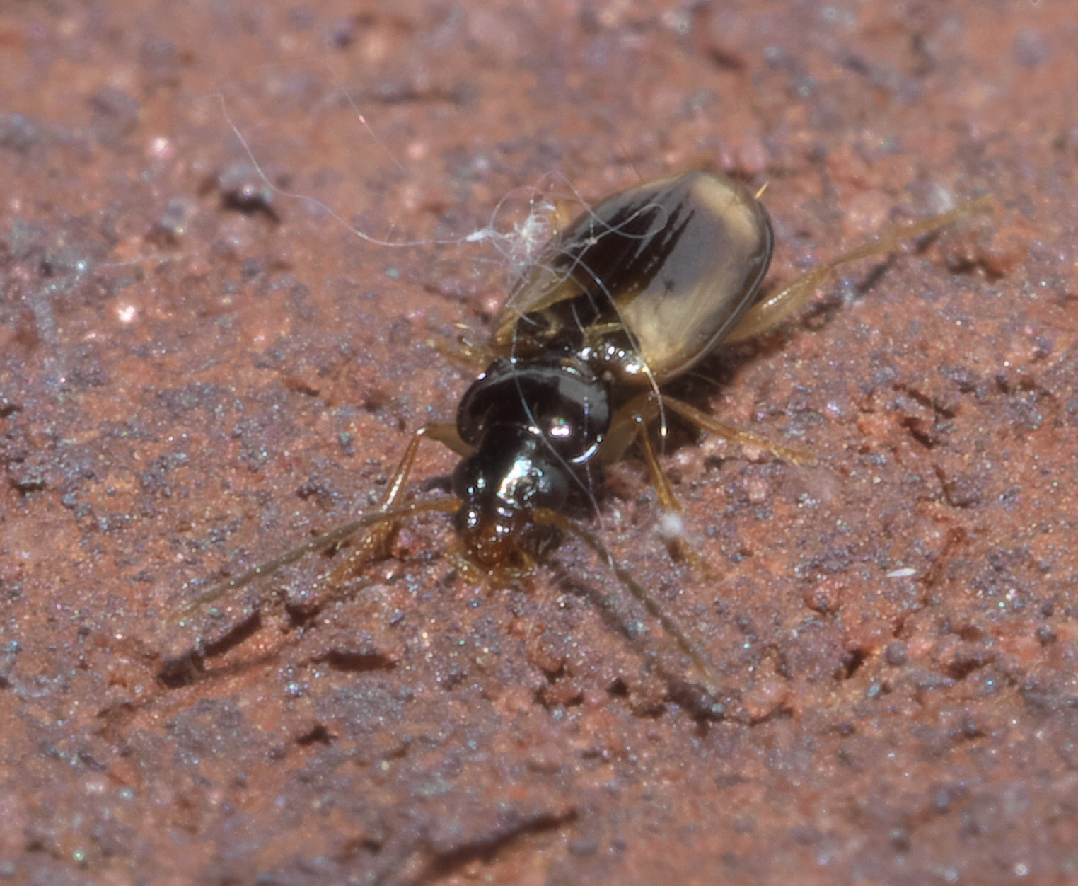 Tachys proximus, Family: Ground Beetles, ID Confidence: 98